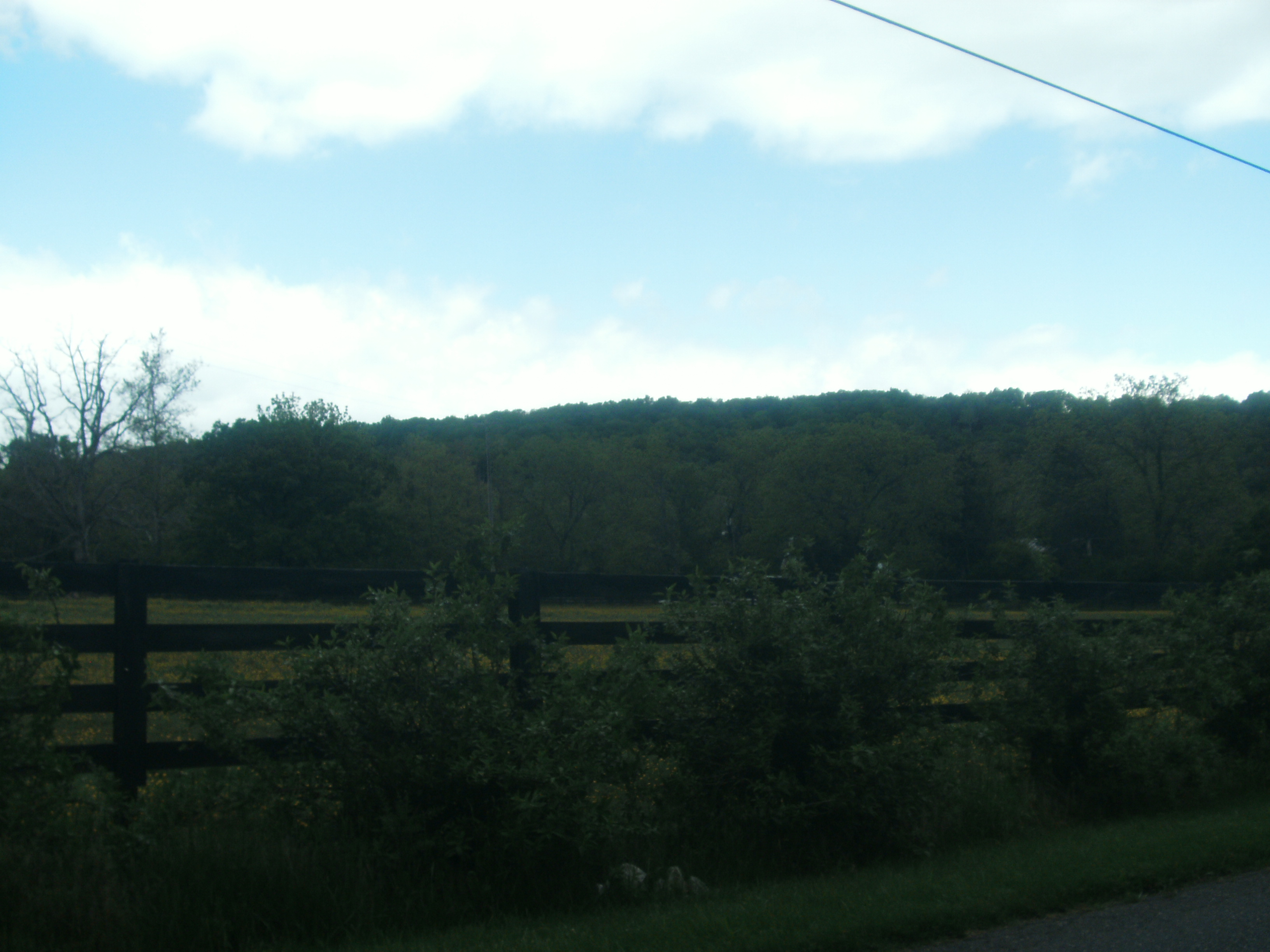 Taken by me in May, 2016 GEDSC DIGITAL CAMERA